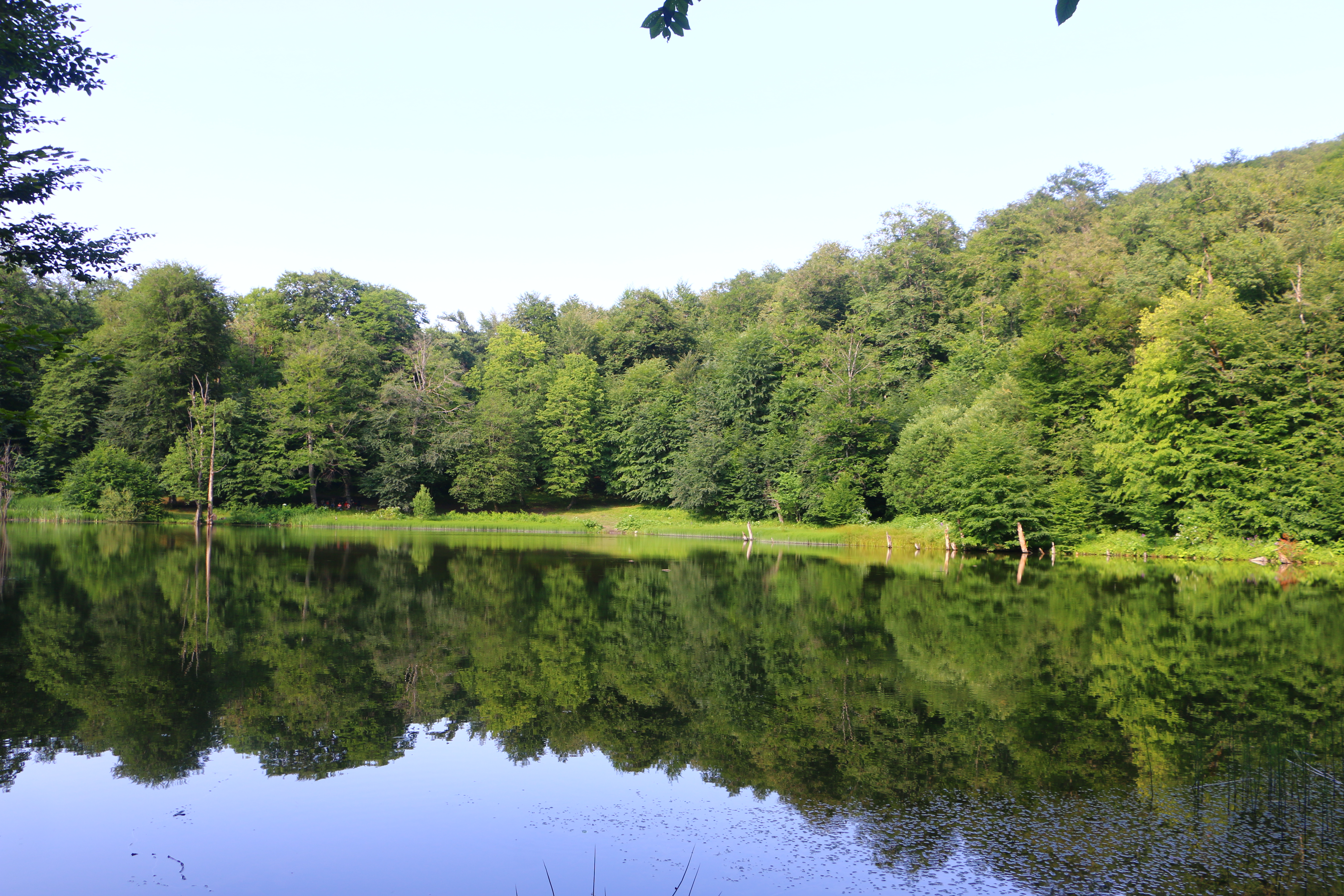 Gosh Lake in Armenia